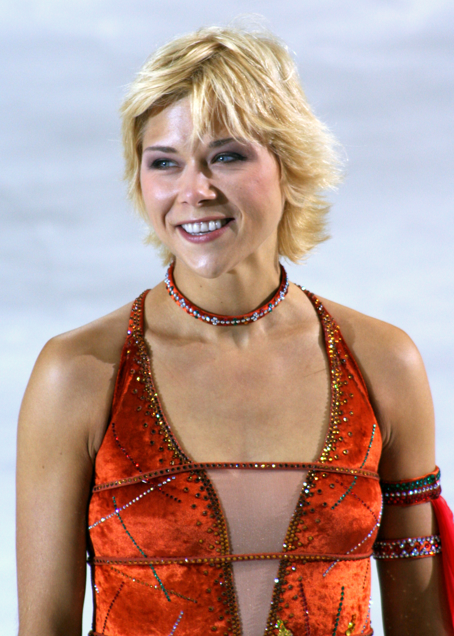 Picture of Tanja Szewczenko, who is a figure skater, actress and writer from Germany